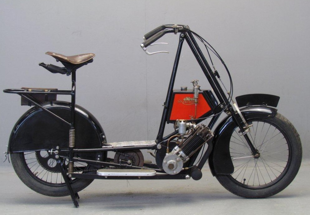 Kenilworth Motor Scooter 1920